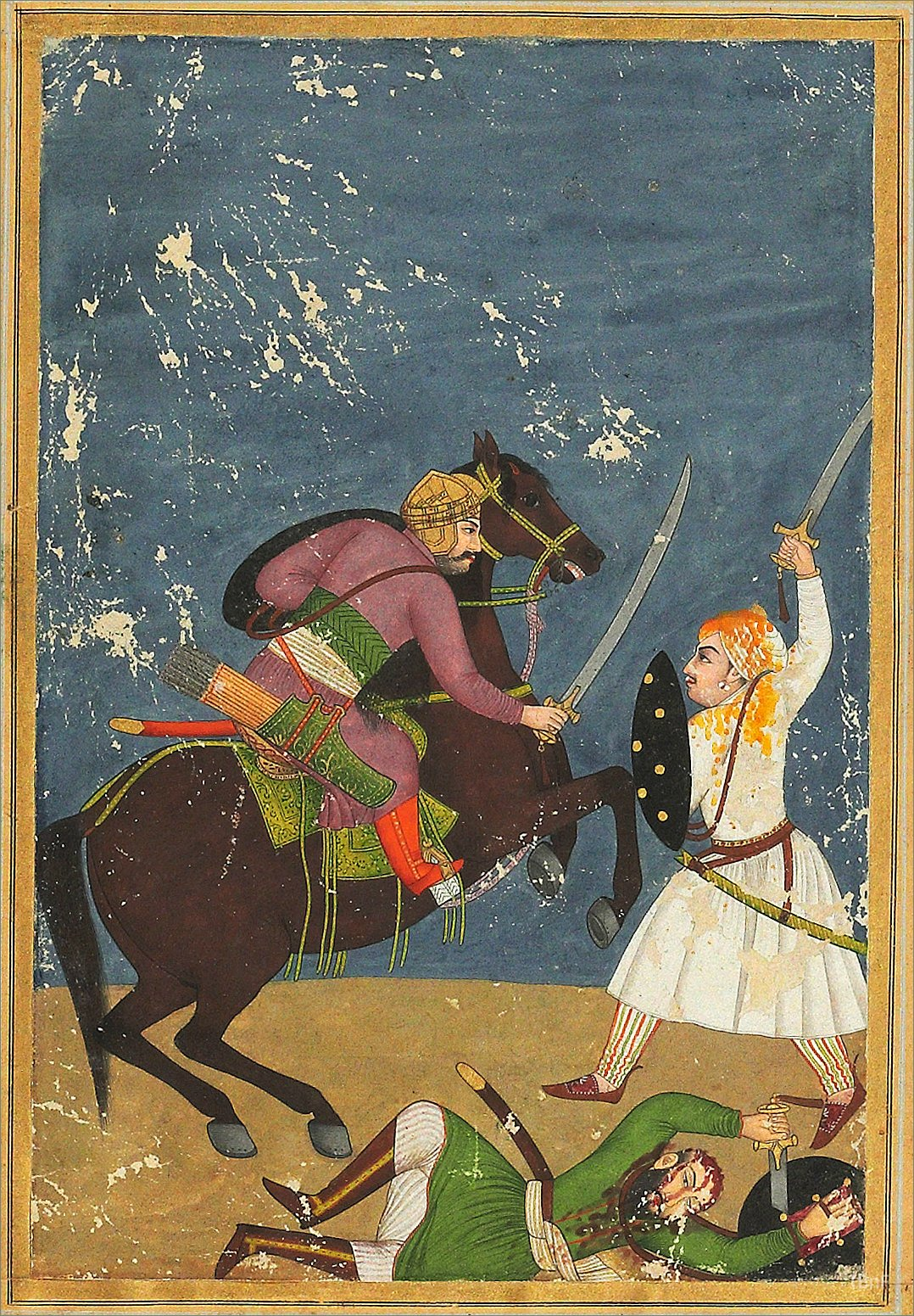 Nata. The heroic warrior personifies heroism (Sanskrit vira) and fury (Rauda in Sanskrit). From a Ragamala of a provincial Mughal Rajput school dating from the late seventeenth century. BnF document-Smith Lesouef 231. This is an album of 36 paintings in which the love lives of heroes and the heroine is a predominant theme.